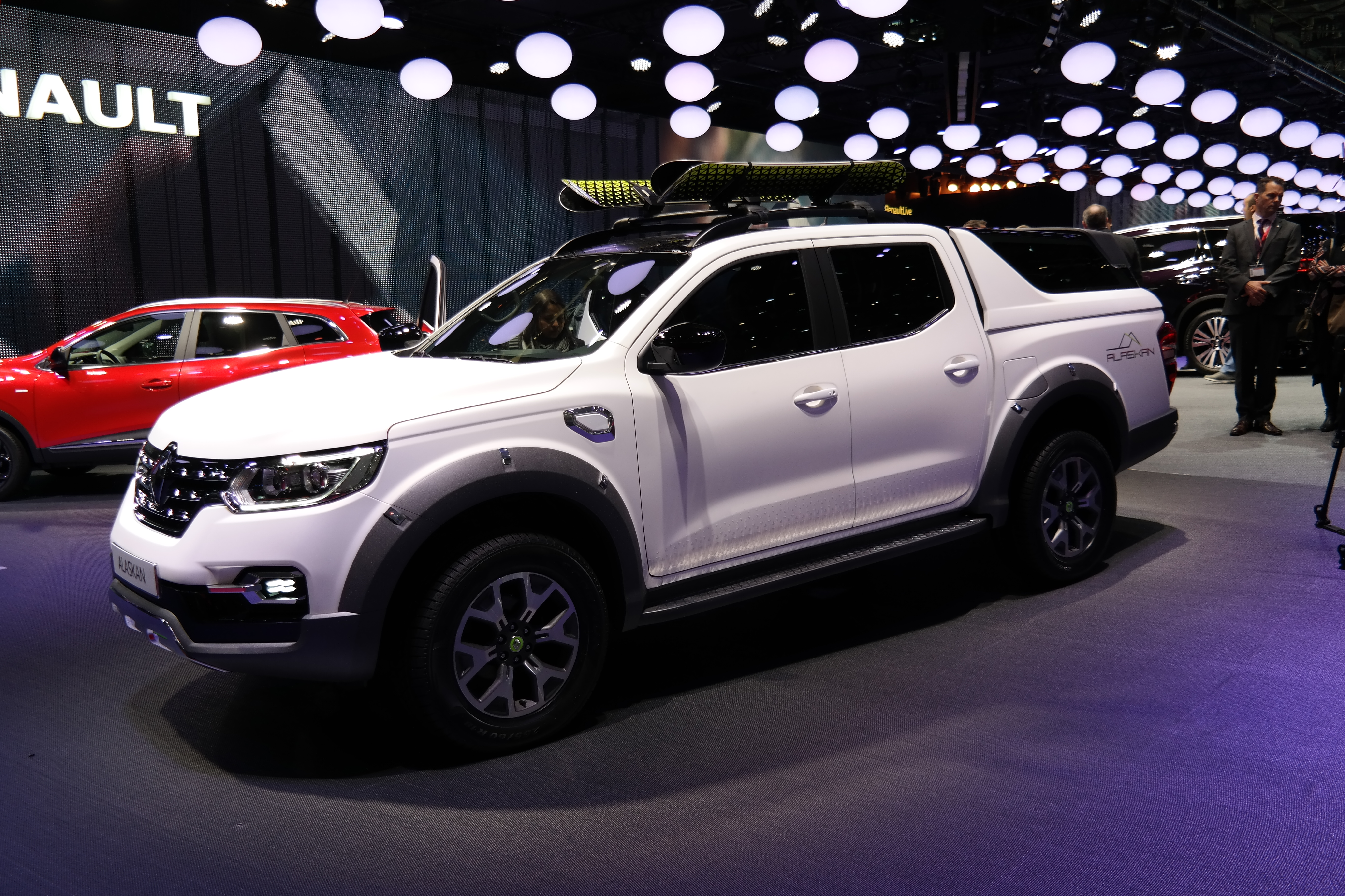 Geneva Motor Show 2017 (photo taken on the first press day)